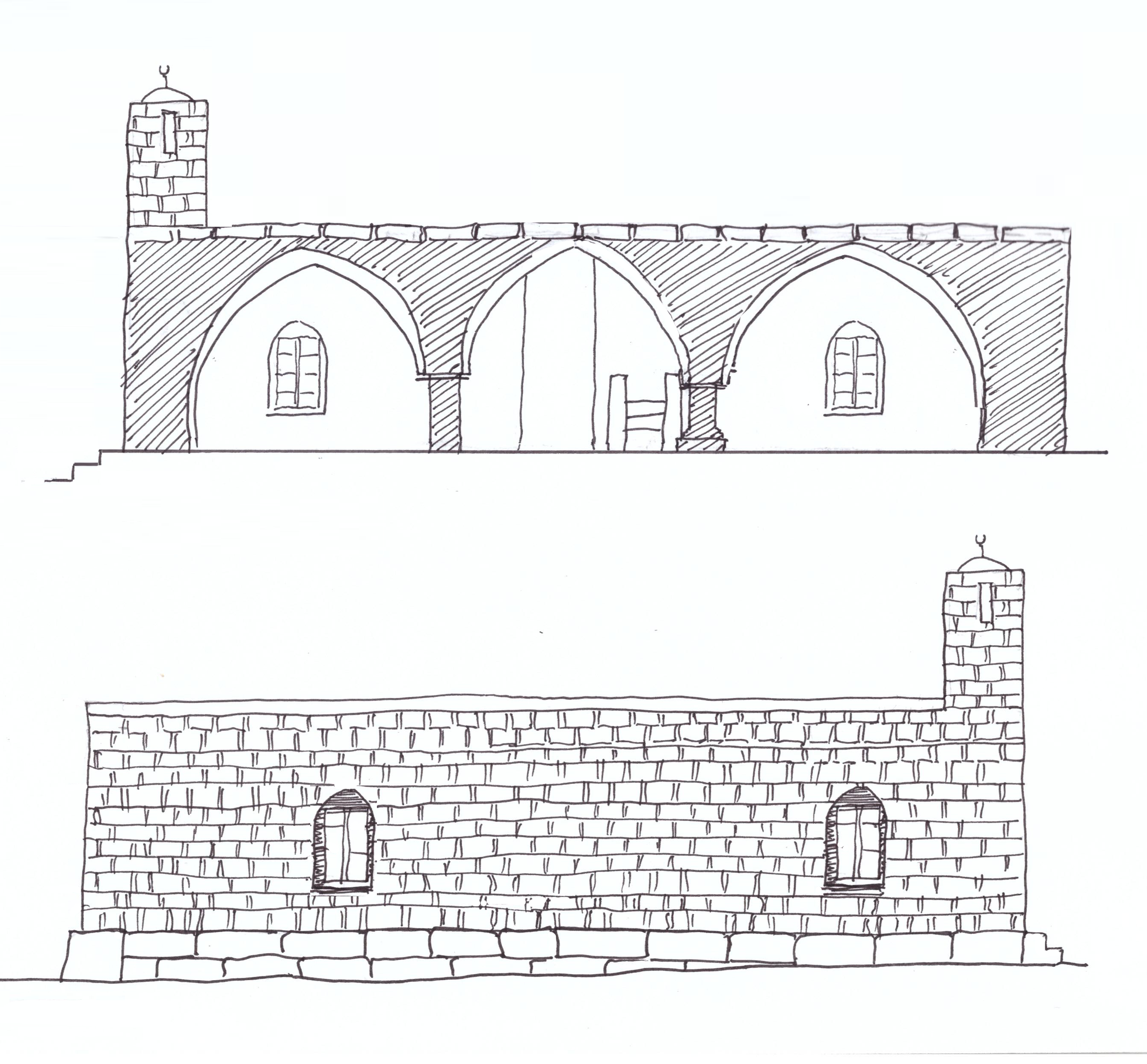 Sakhra Sharqi Old Mosque, Sakhra, Ajloun, Jordanː Sketch section E-W and evevation of the S façade, without modern extensions (by Nidhal Jarrar).